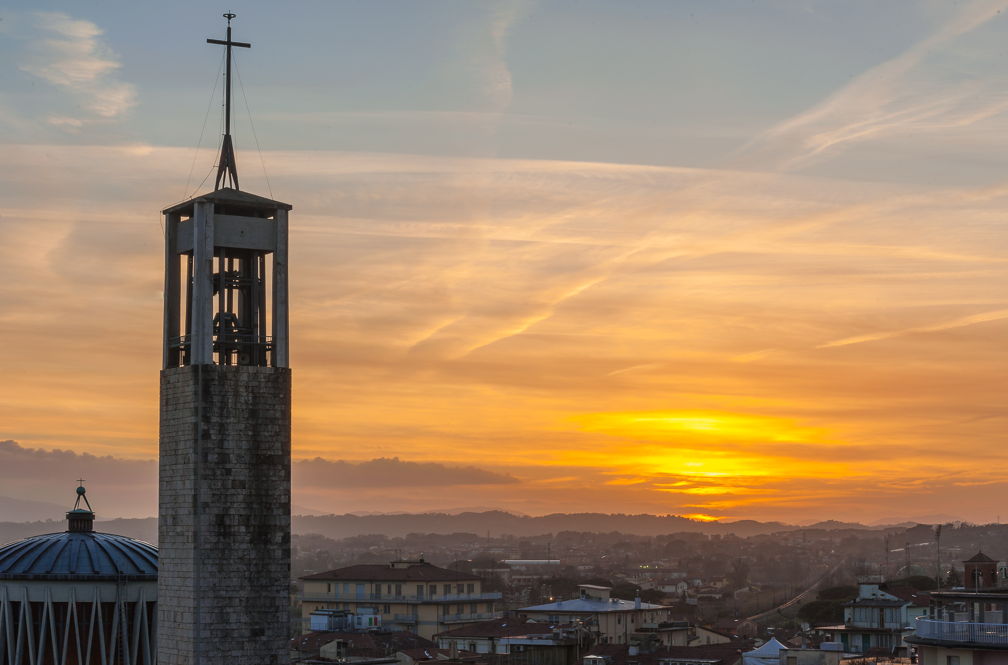 Sunset in Montecatini Terme, Tuscany Italy, March 2017